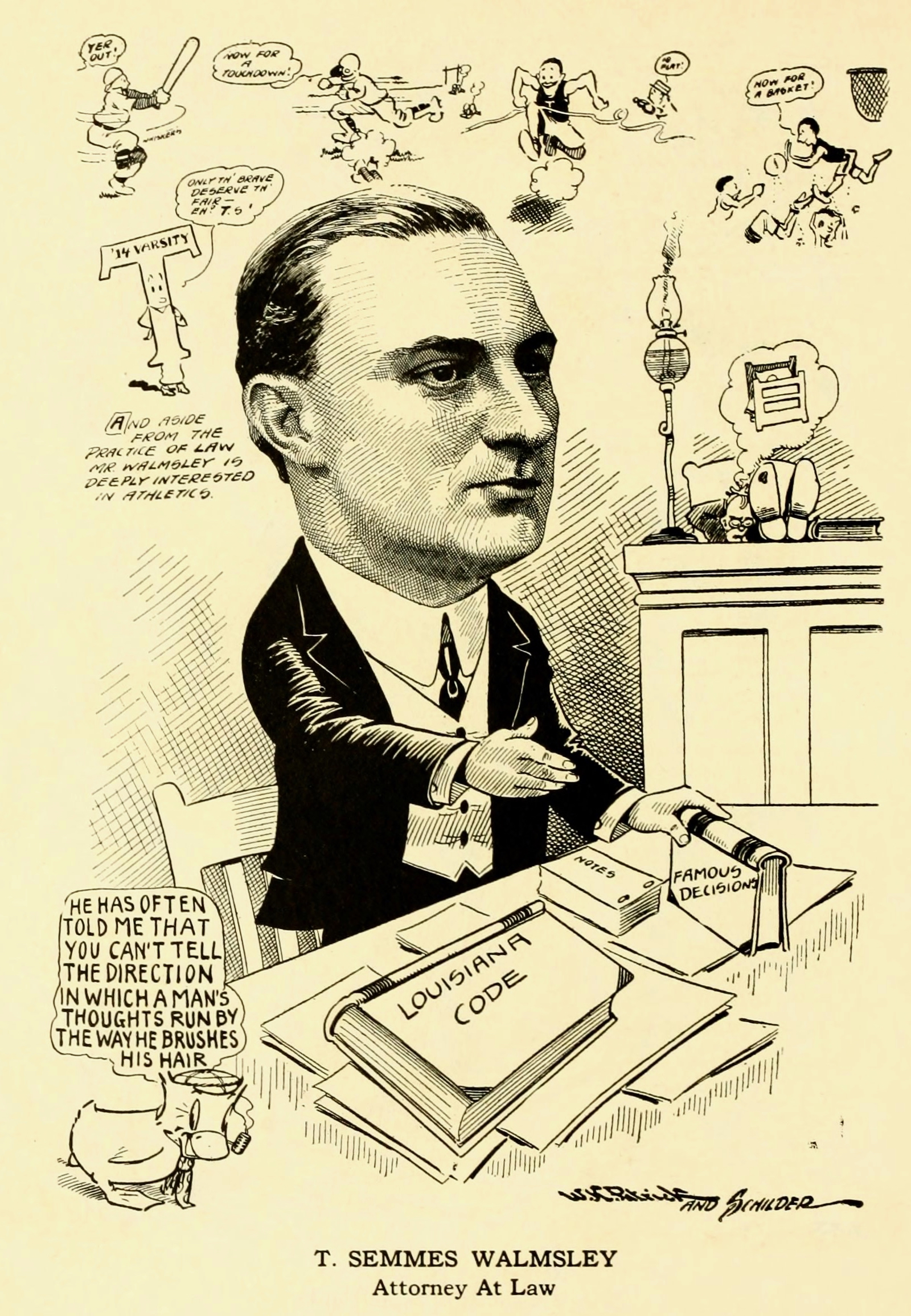 Caricature by W. K. Patrick of New Orleans attorney T. Semmes Walmsley (later to become Mayor of New Orleans). Printed in book 1917; may have appeared in the Times-Picayune some years earlier.